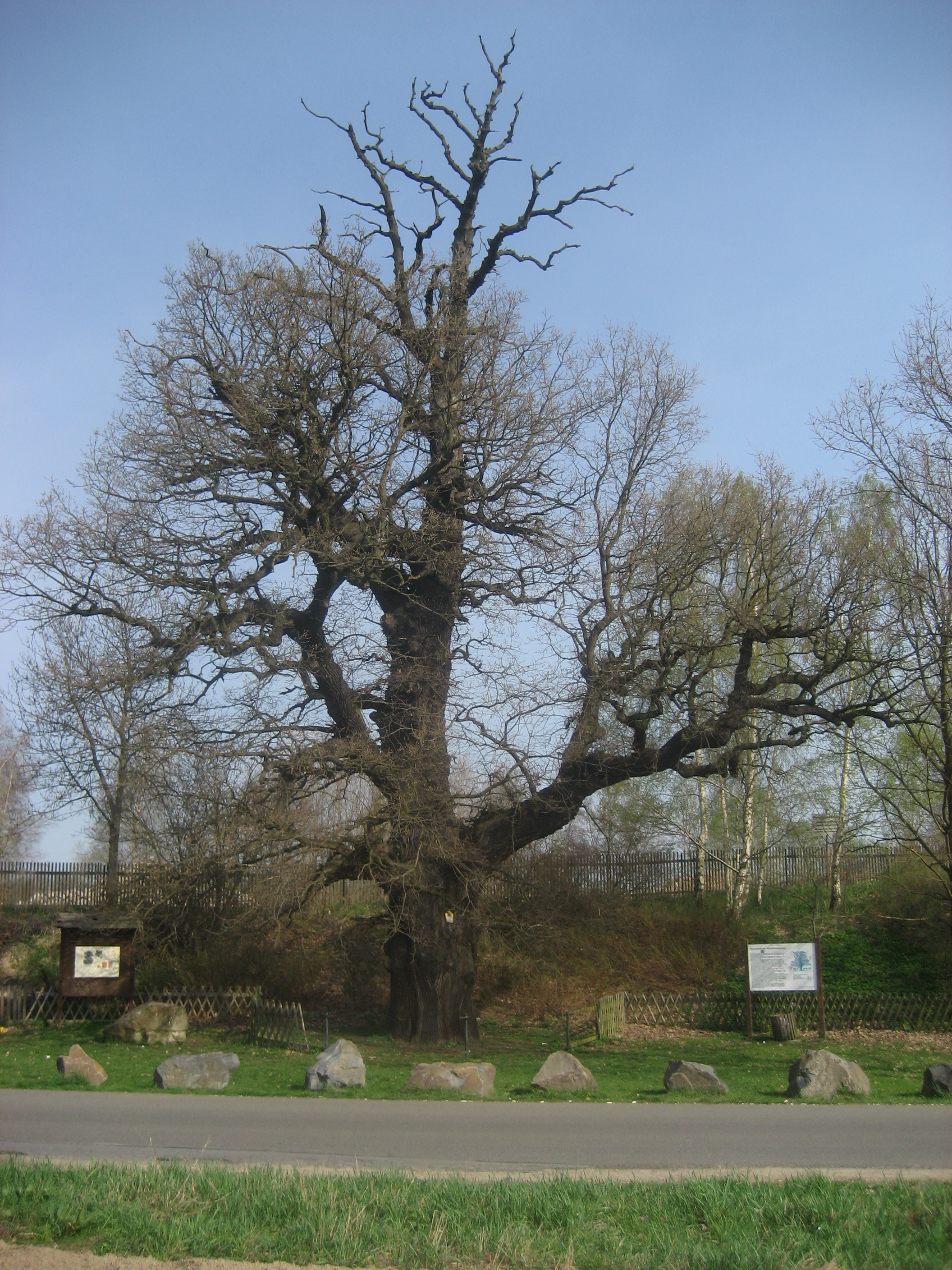 Hanneloren-oak Limbach-Oberfrohna